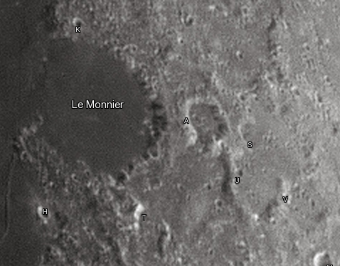 Le Monnier lunar crater as seen from Earth with satellite craters labeled